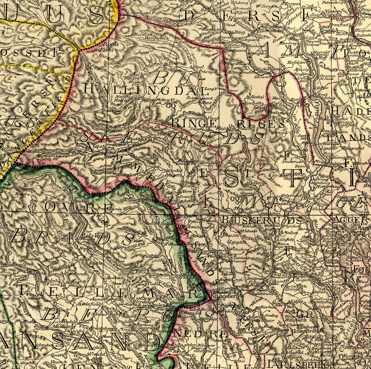 Map over Southern Norway in 1785 drawn by Christian Jochum Pontoppidan.